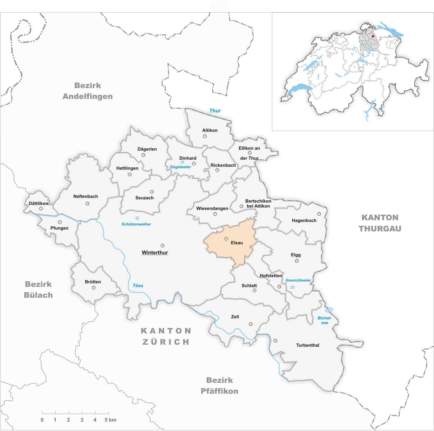 Municipality Elsau